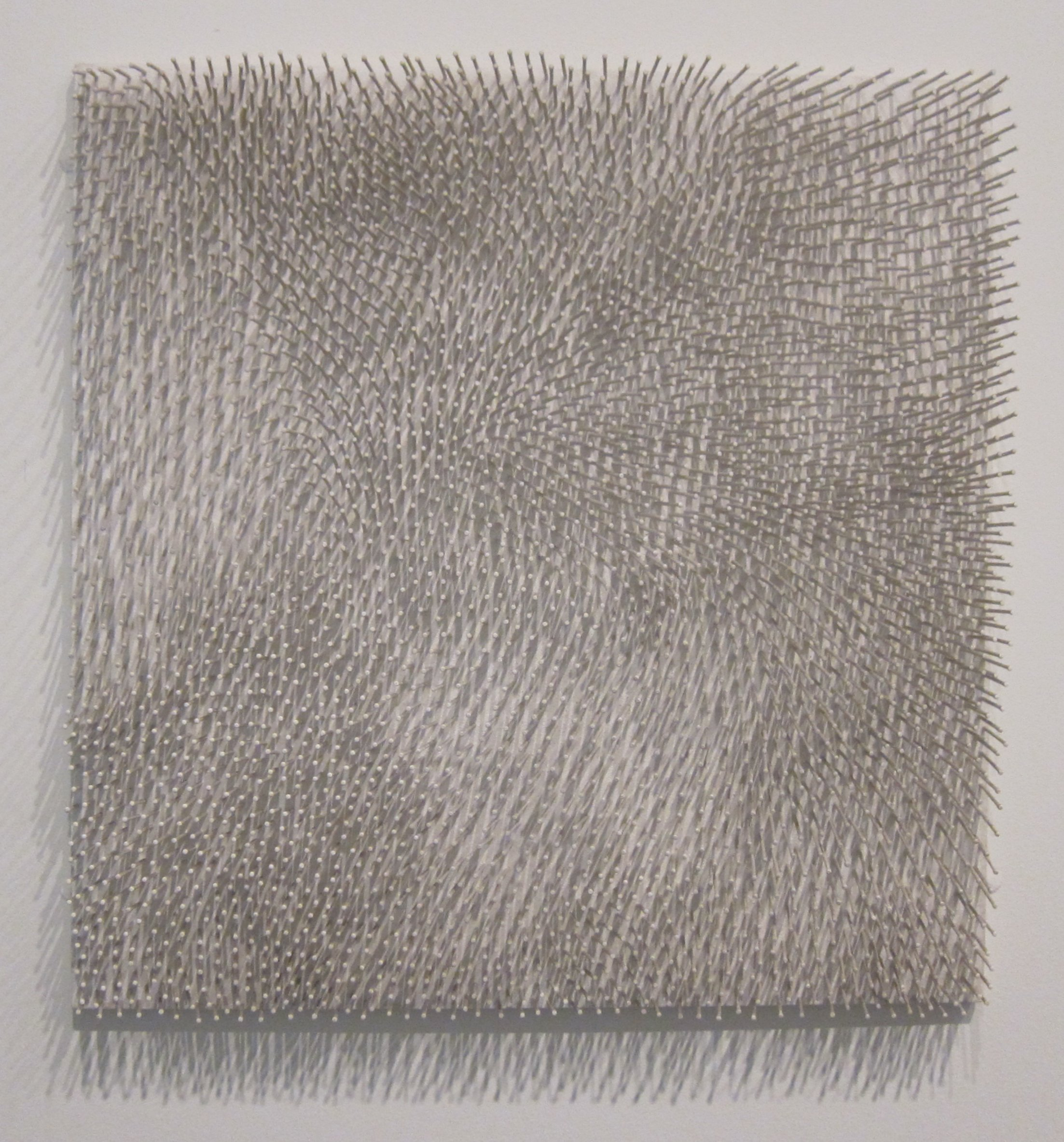 White Field, mixed media sculpture by Günther Uecker, 1964, Tate Modern